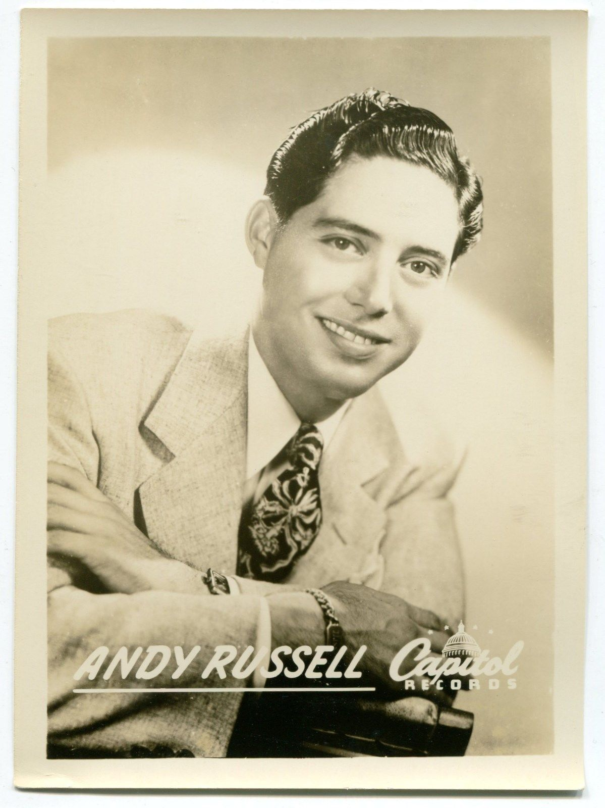 Andy Russell Capitol Records 1946